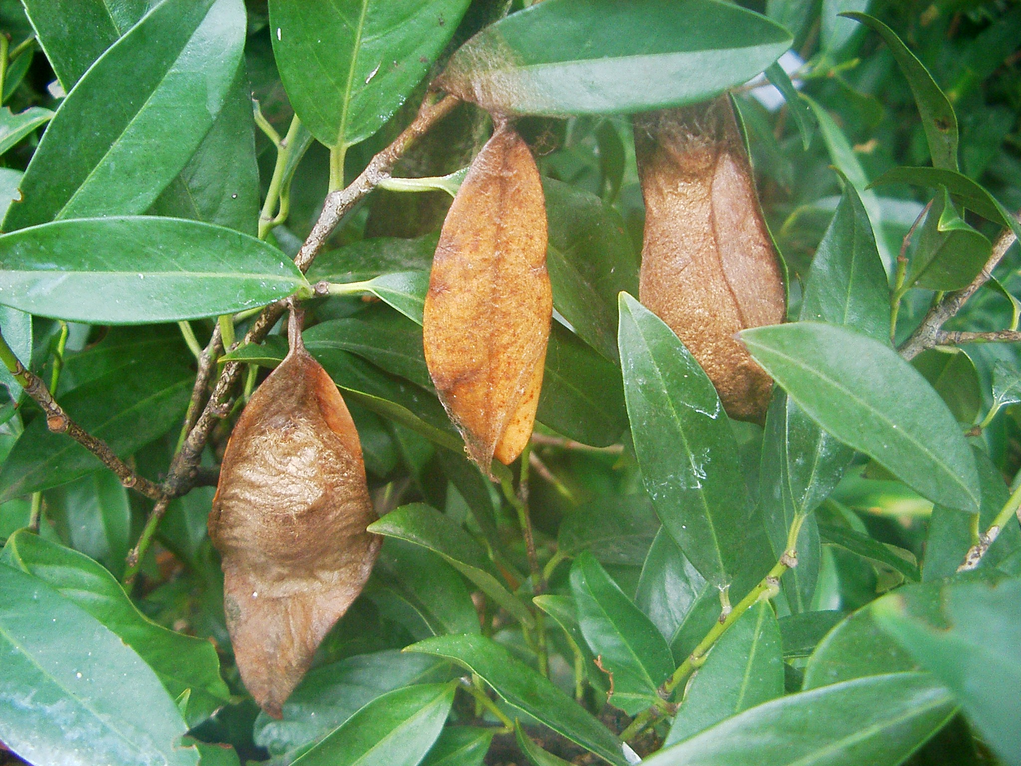 Attacus atlas butterflies and cocoons at Botanical Garden of the University of Bern/Switzerland.